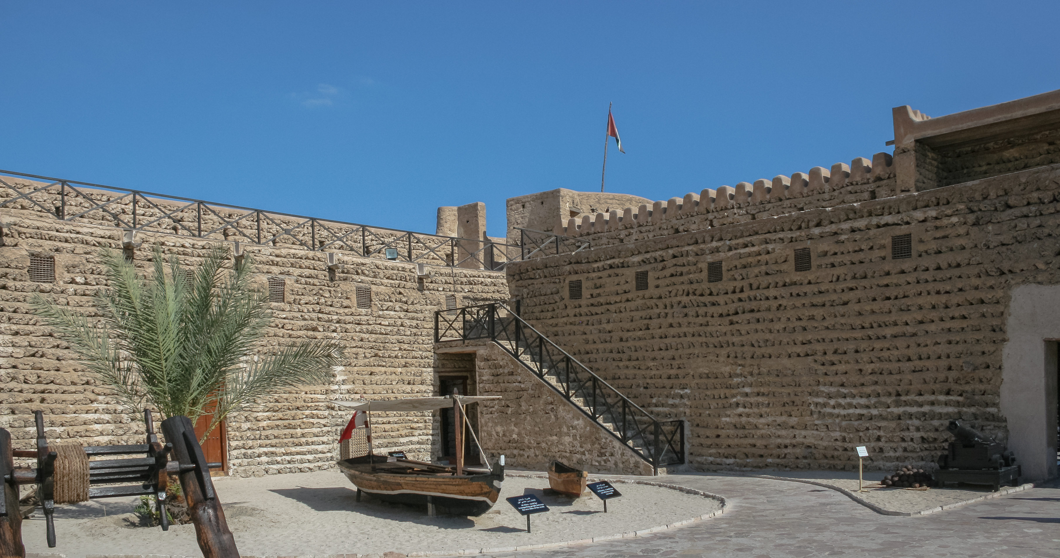 Dubai Museum, United Arab Emirates